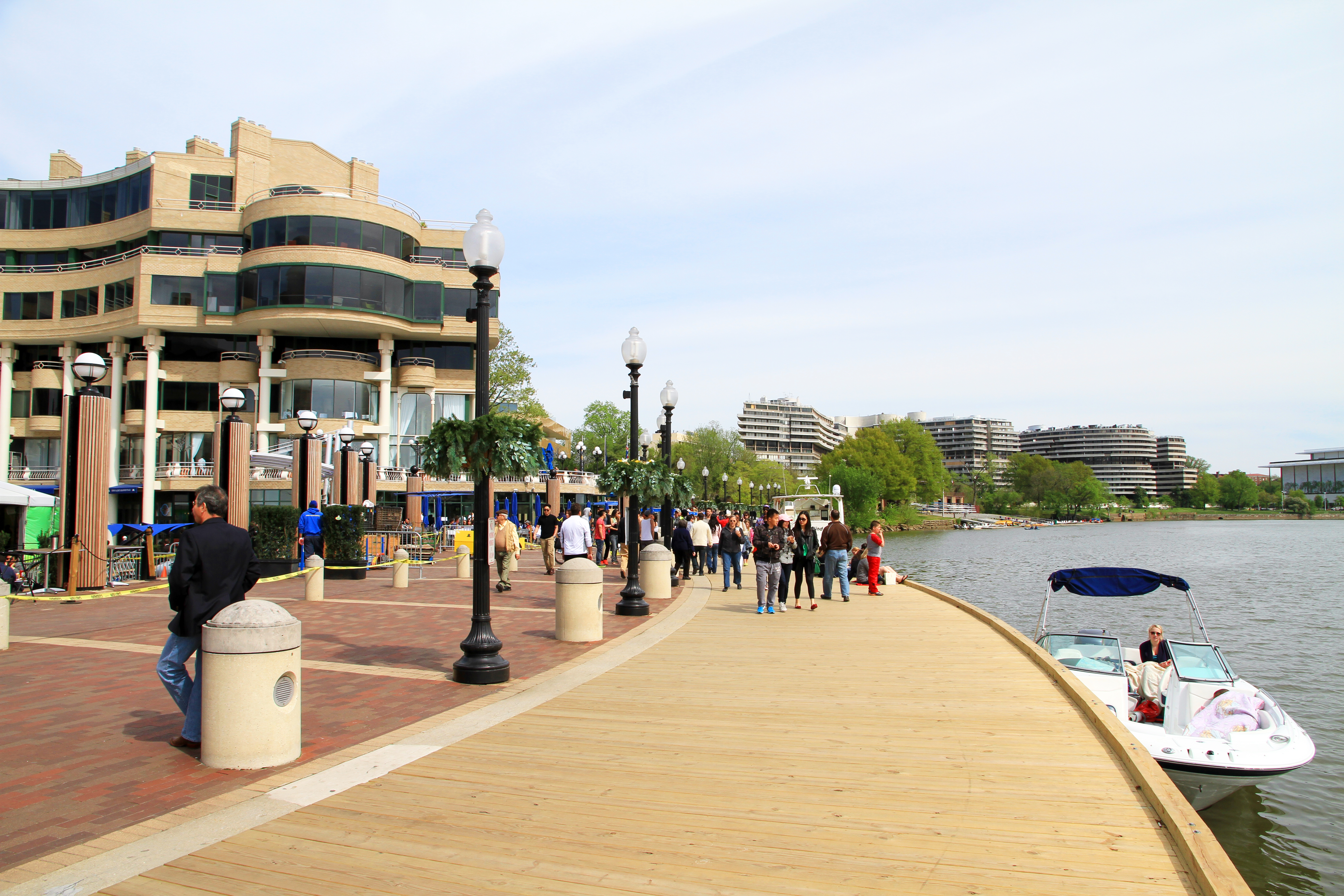 Georgetown Waterfront Harbor